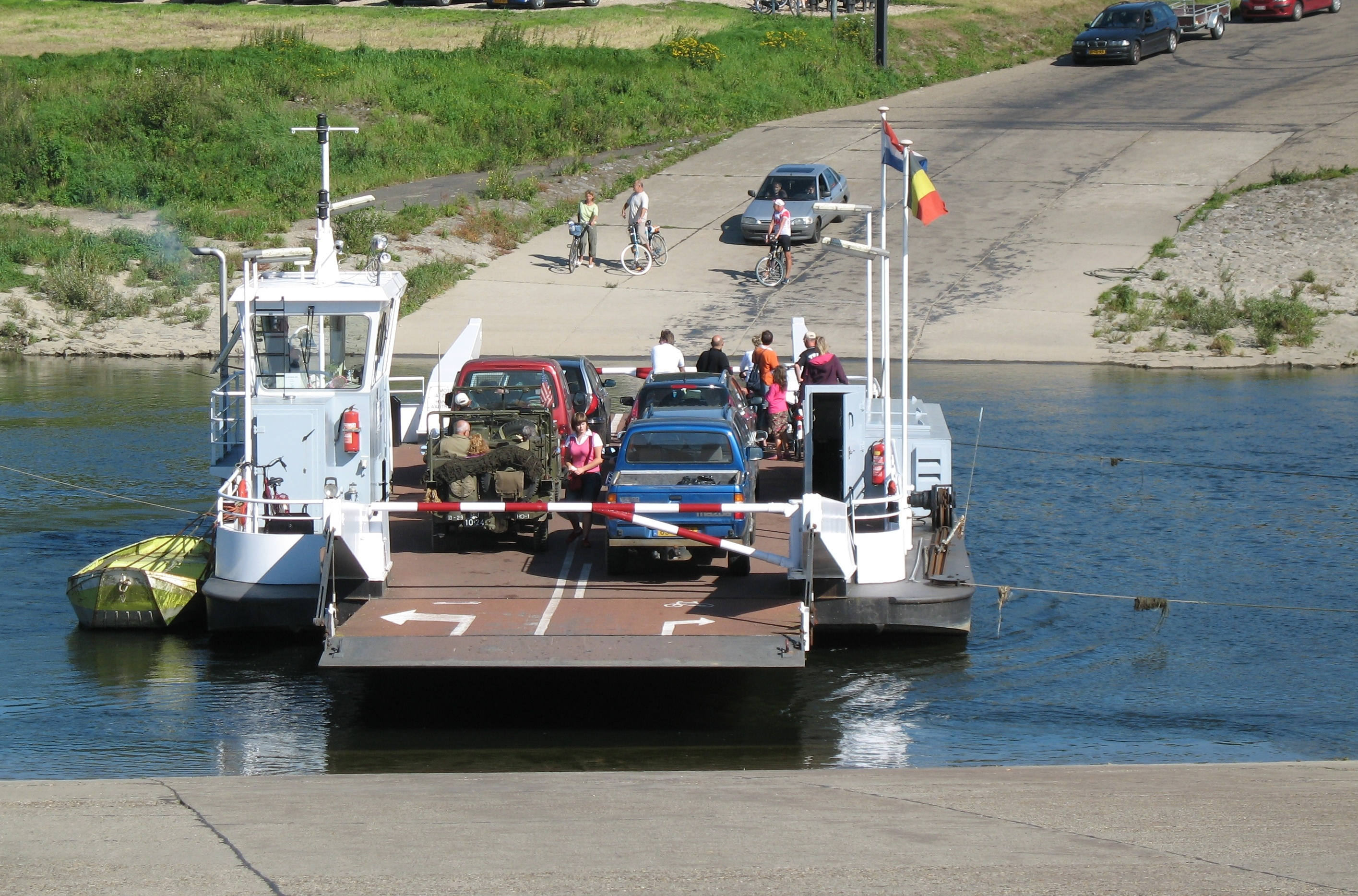 Ferry crossing the Meuse River between Meeswijk (Be) and Berg-a/d-Maas (Nl)